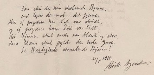 The handwriting of the danish author and publisher of the book, "Vandrer mod Lyset!", Michael Agerskov, 1870-1933. I scanned the sample from a collection owned by the family.